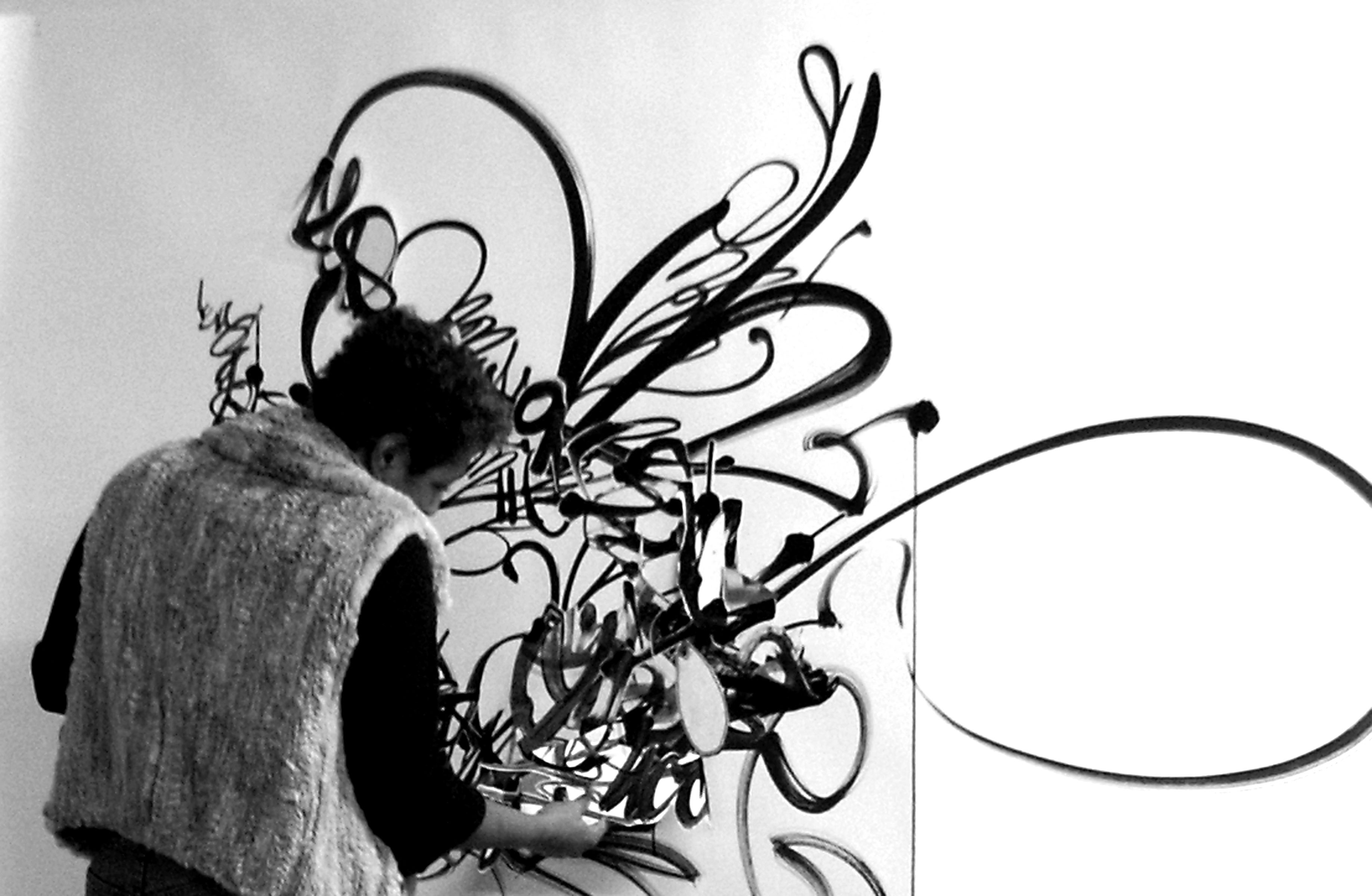 Shinique at work, 2005